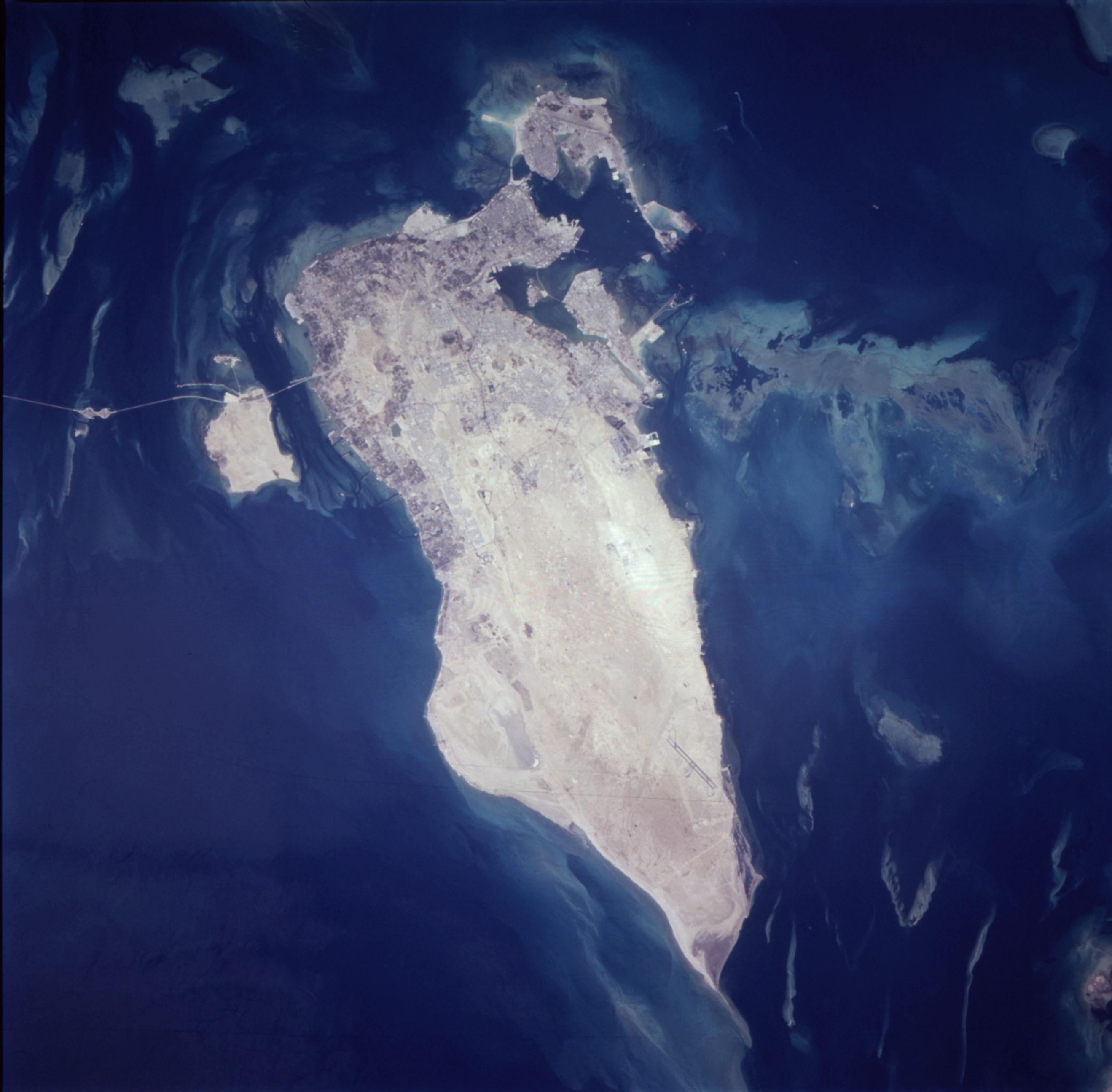 The island of Bahrain, together with platform reef structures. Active coral growth is limited to only small areas of these platforms